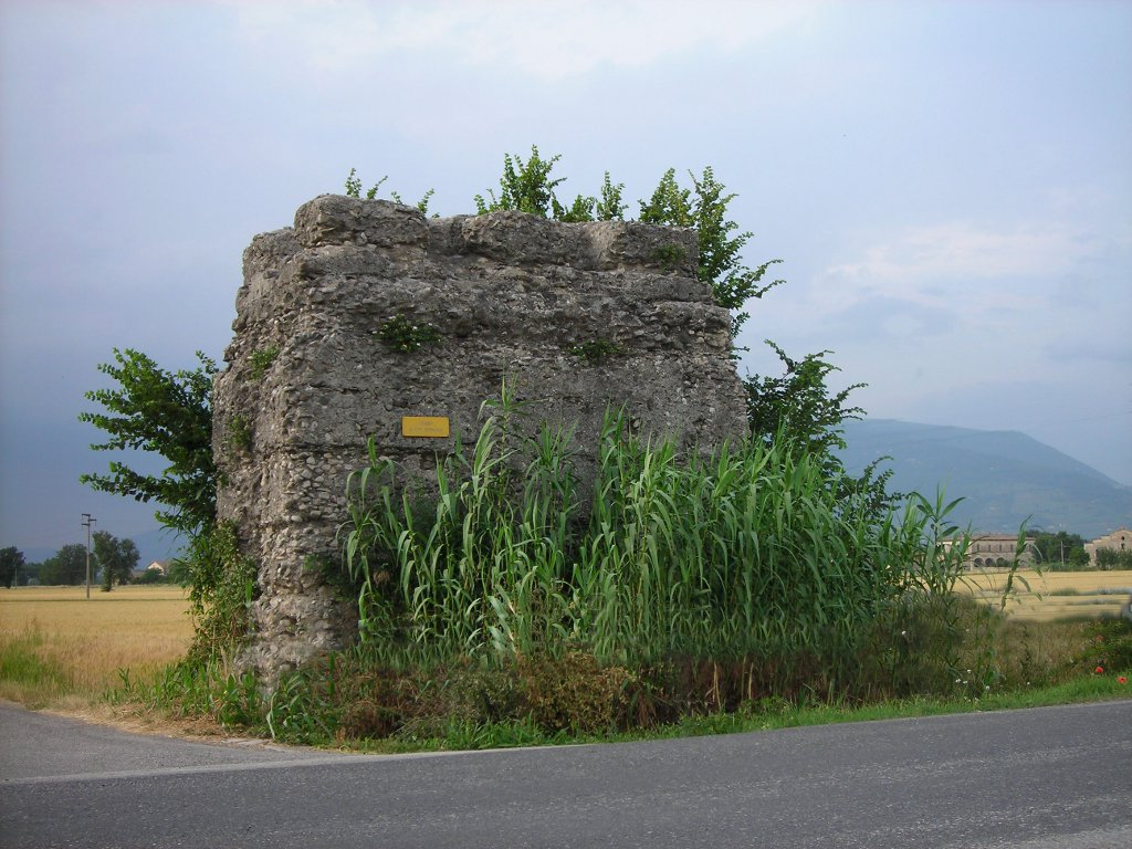 Roman tumb in Fiamenga, Foligno, Perugia, Umbria, Italy